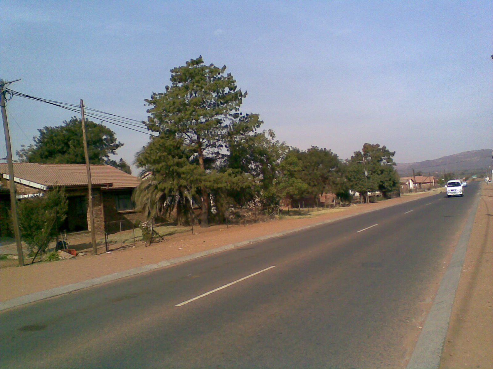 Author: Samuel Molepo, Source: Self Captured